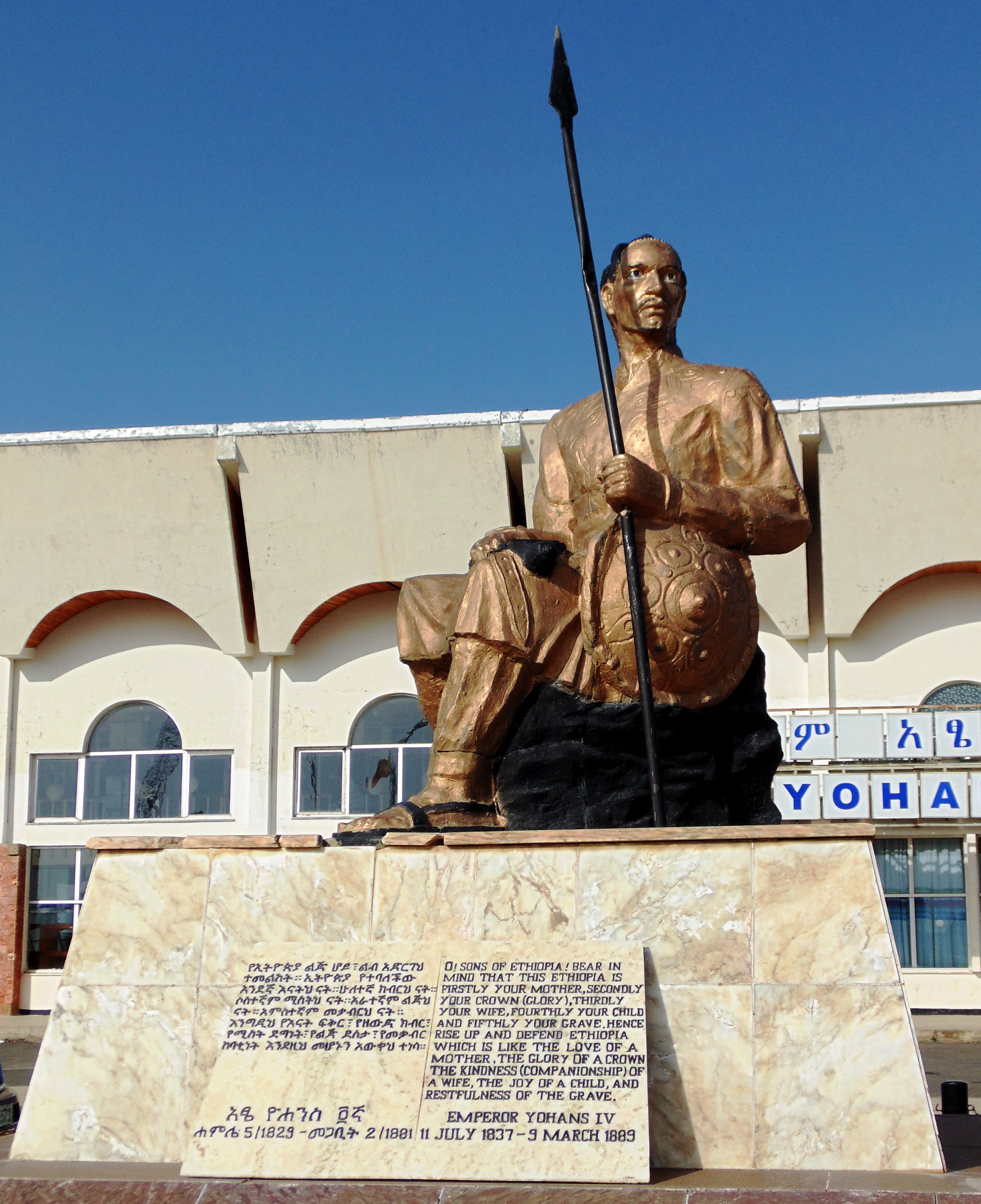 Monument of Yohannes IV at Axum Airport